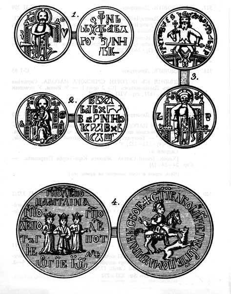 1. Coin of King Dušan; 2. Coin of King Vukašin; 3. Coin of Despot Đurađ Branković; 4. Coin of Despotissa Angelina Branković. From the book "Djejanija k istroriji srbskog naroda". Engraving. 1821.